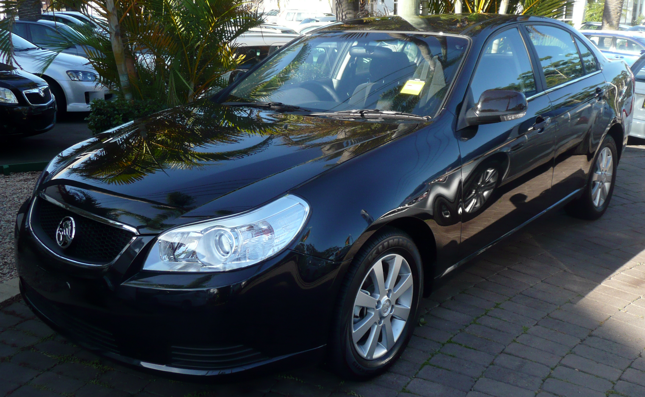 2008 Holden Epica (EP MY09) CDX sedan. Photographed at McGrath Sutherland Holden, Kirrawee, New South Wales, Australia.